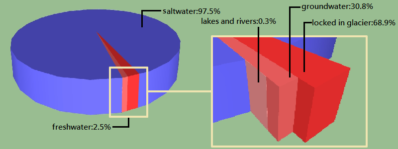 world_water_distribution on Earth